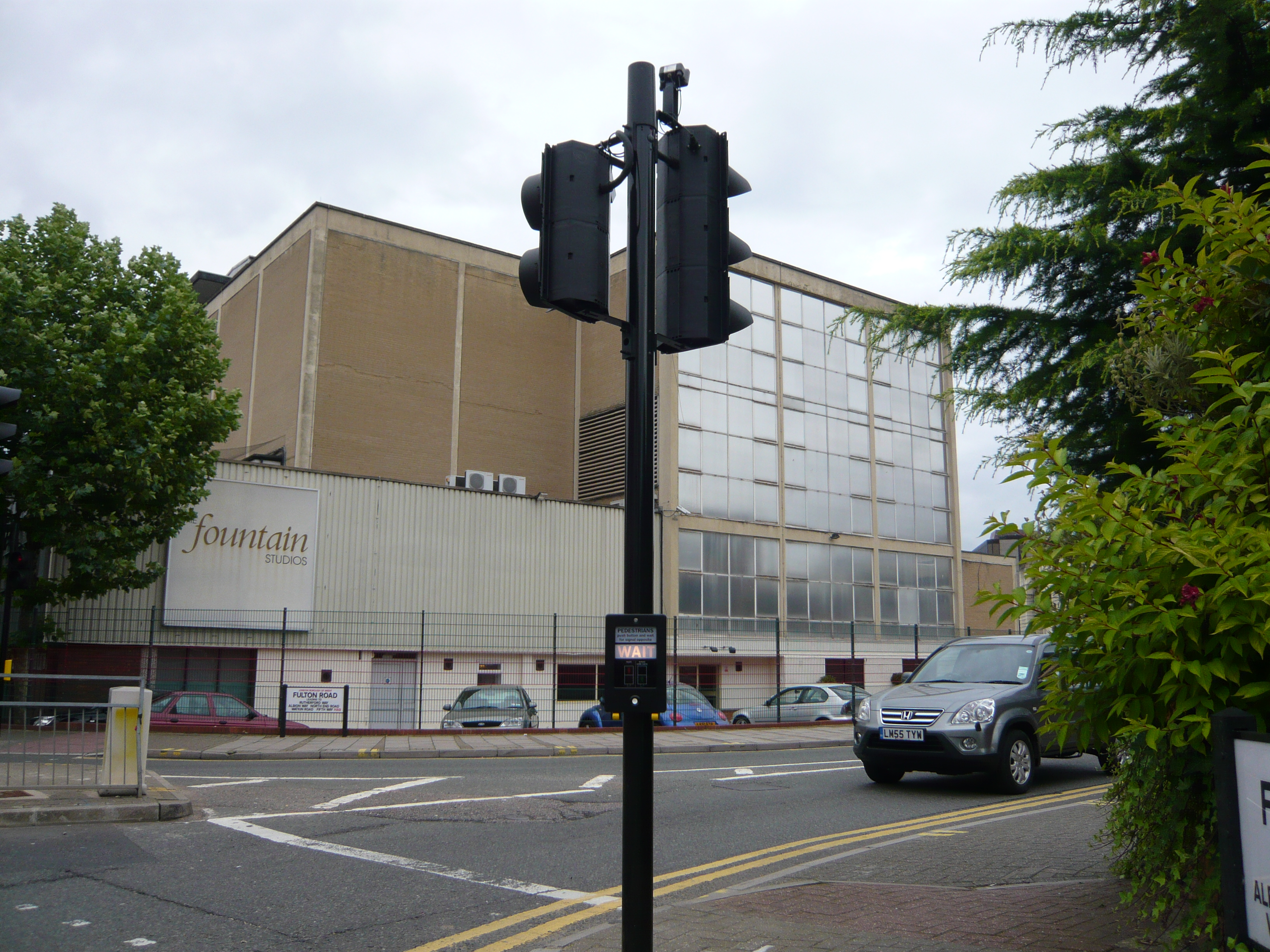 Picture of the entrance and studio block of the Fountain Studios